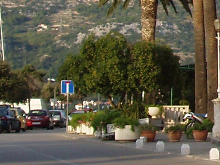 Example of 4:3 HOR+